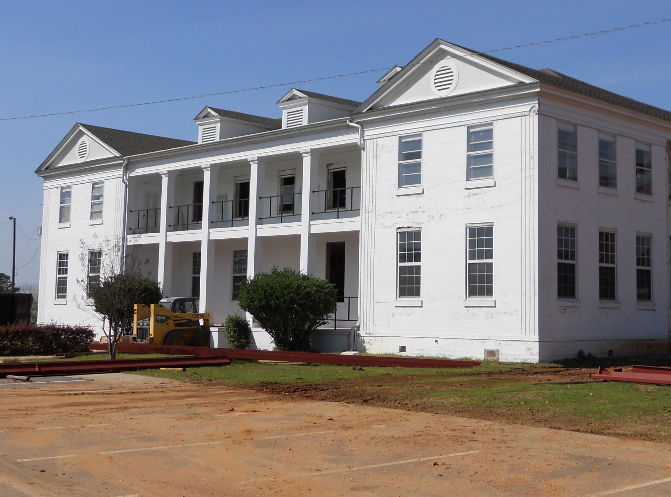 This is a photograph of the administration building at Mount Meigs Campus in Mount Meigs, Alabama. The building is undergoing renovation as of March 2011.